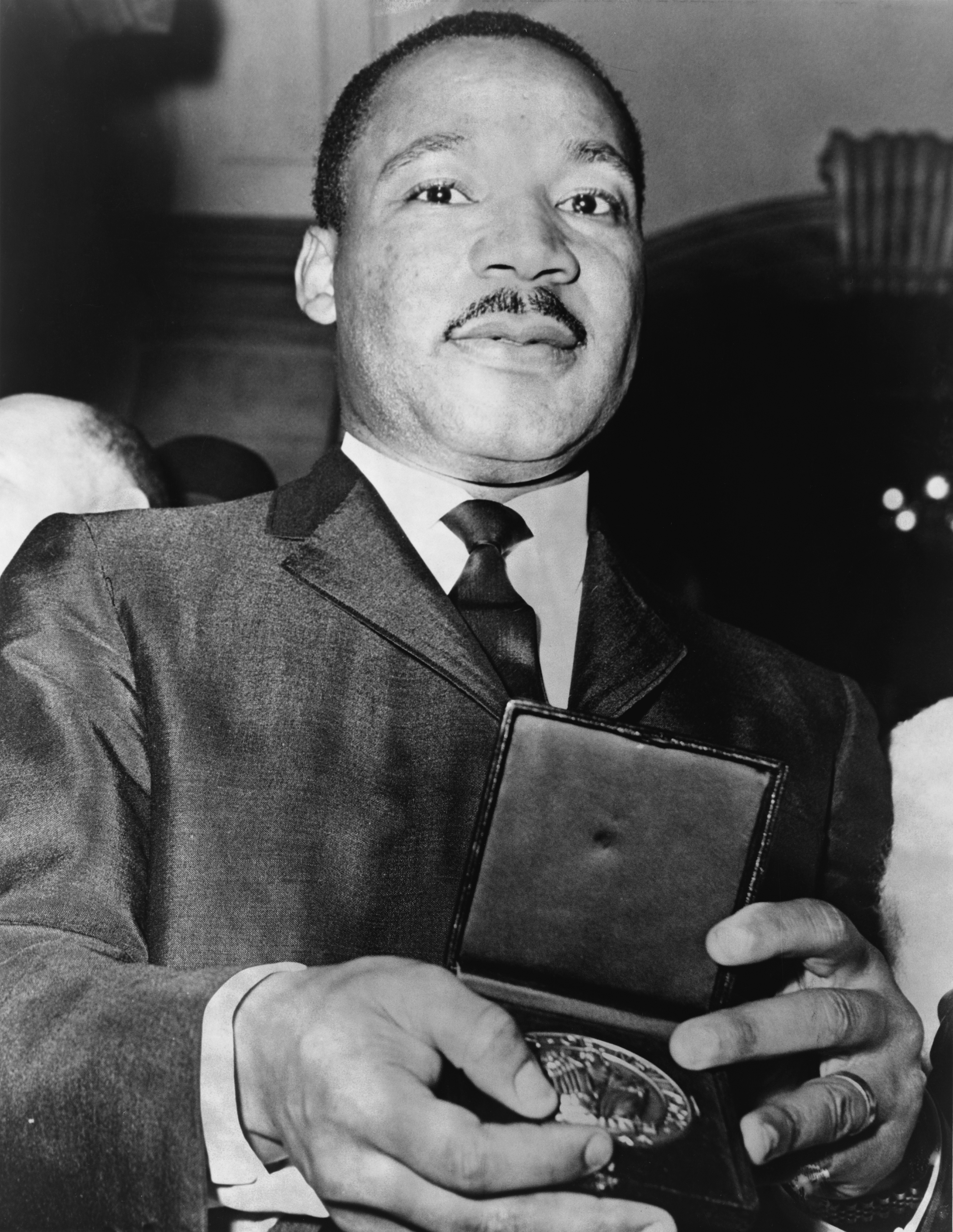 Martin Luther King, Jr. showing his medallion received from Mayor Wagner